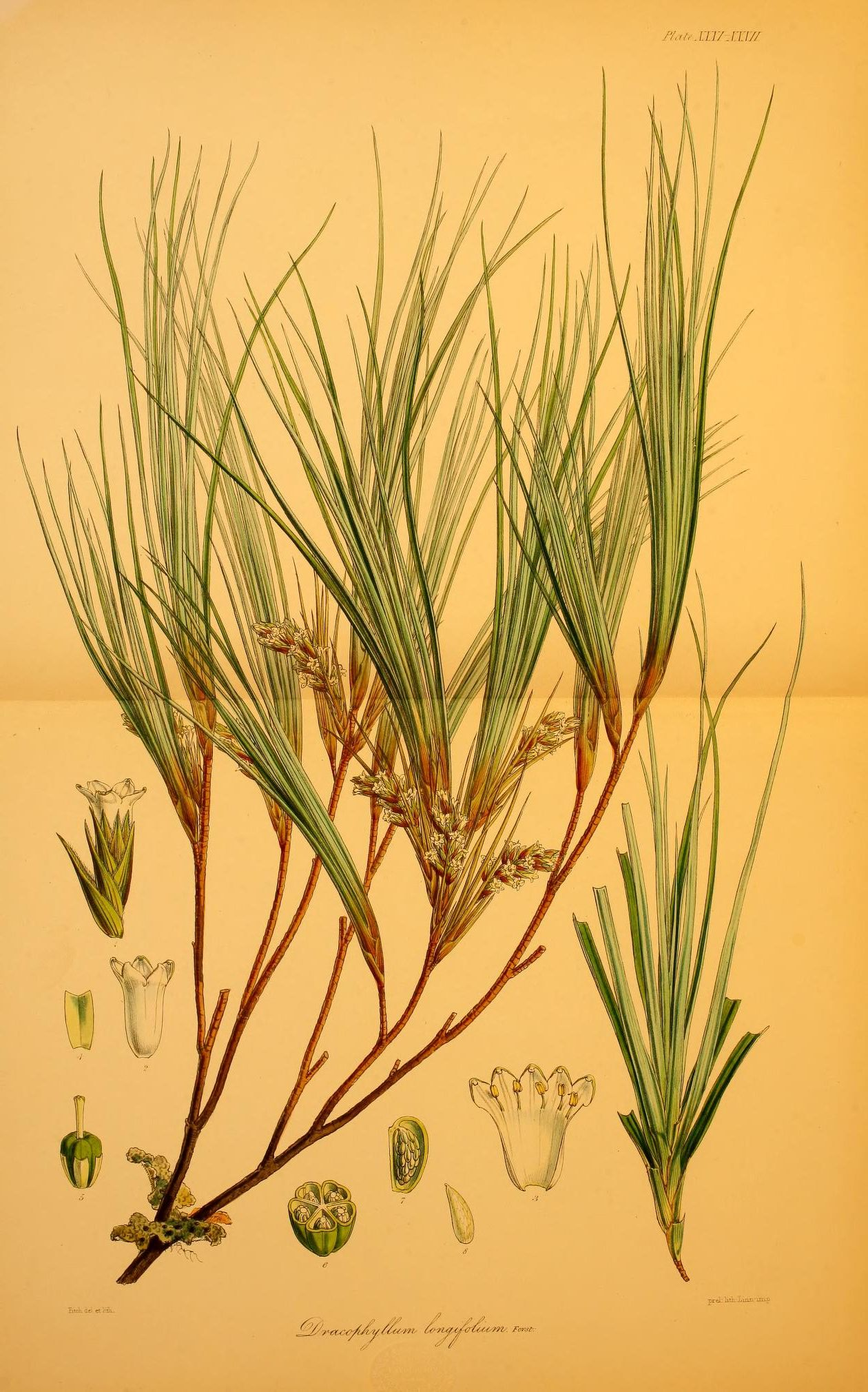 jpg of Plate XXXI.XXXII of Hooker's Flora Antarctica. Dracophyllum longifolium Forst.